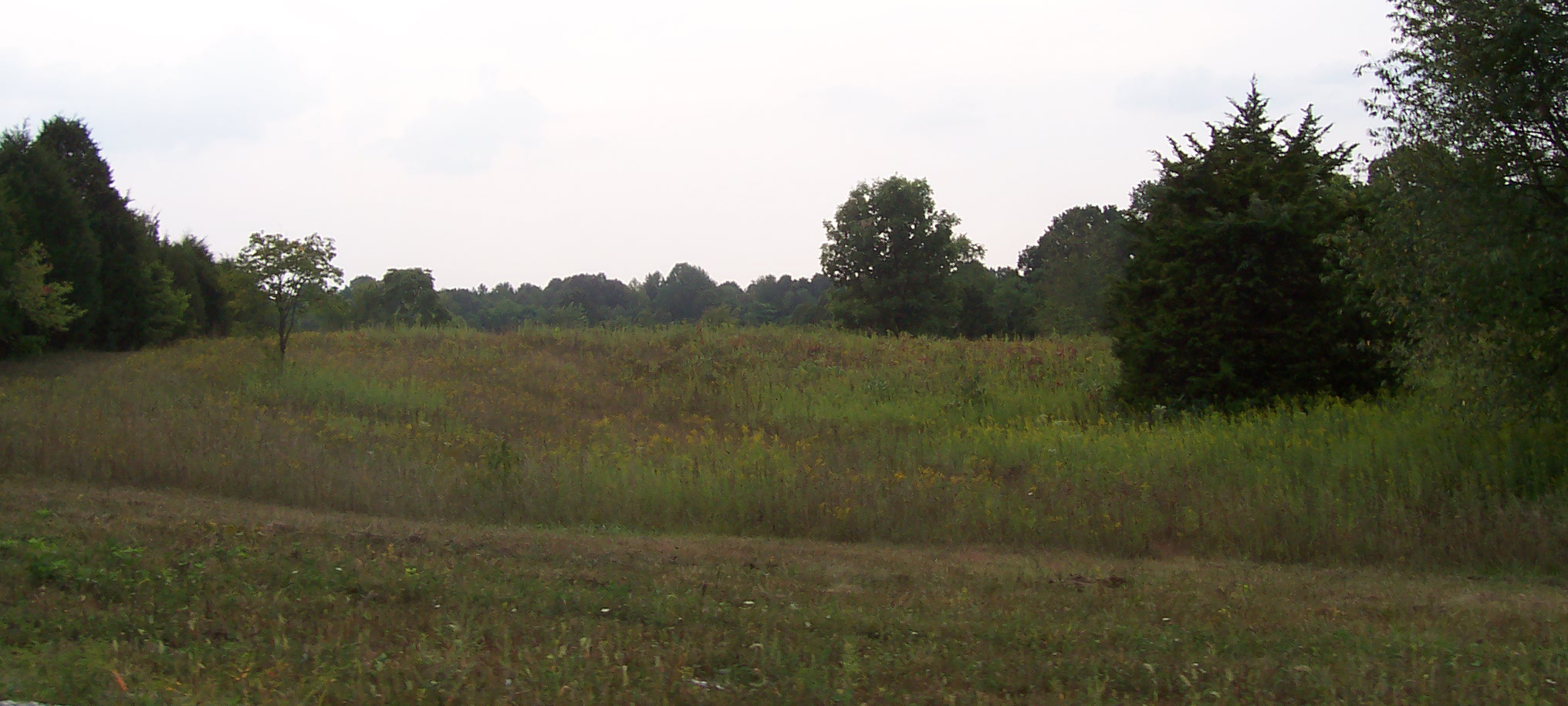 Buffalo Trace, an old bison trail in southern Indiana. Photo Taken on the northern edge of the Buffalo Trace Park in Palmyra, Harrison County, Indiana